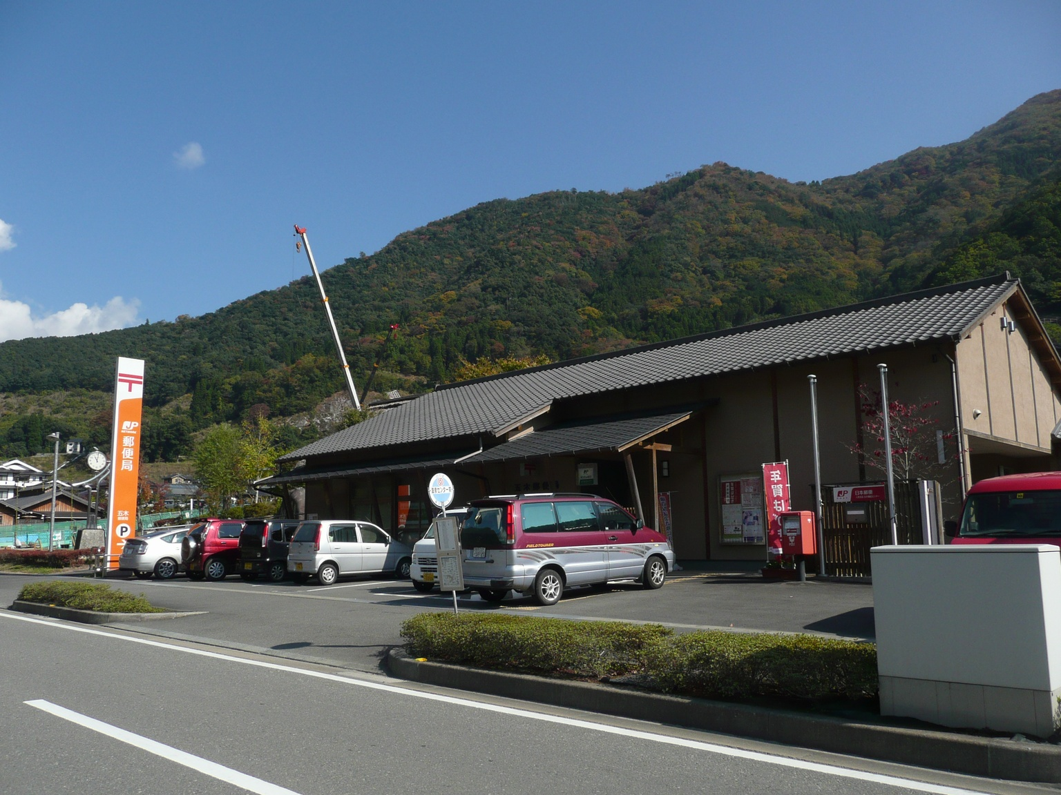 Itsuki Post Office (Itsuki Village, Kumamoto, Japan)